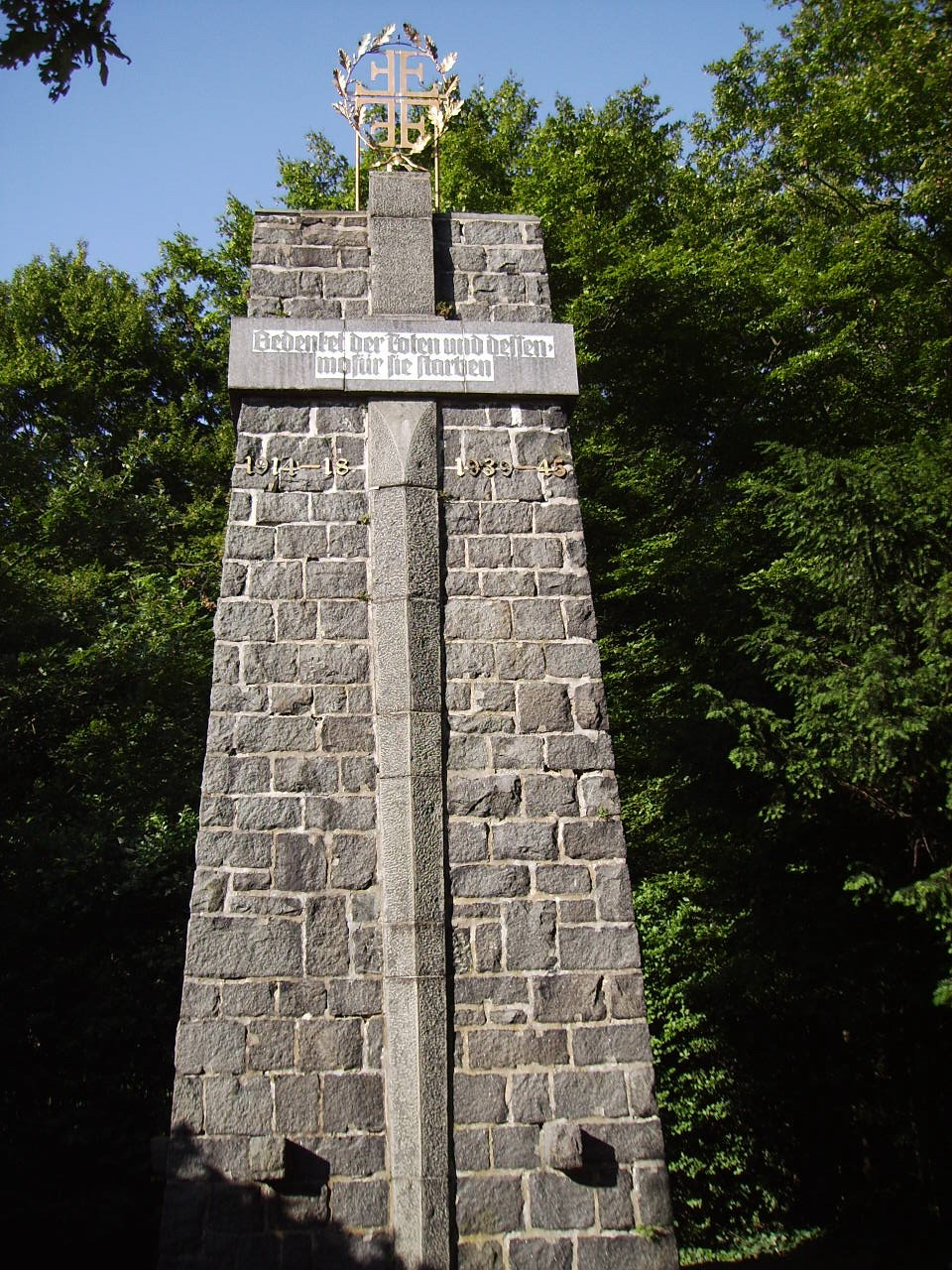 War Memorial near Frankenstein-Bergturnfest bzw. Burg Frankenstein (Odenwald), Hesse, Germany